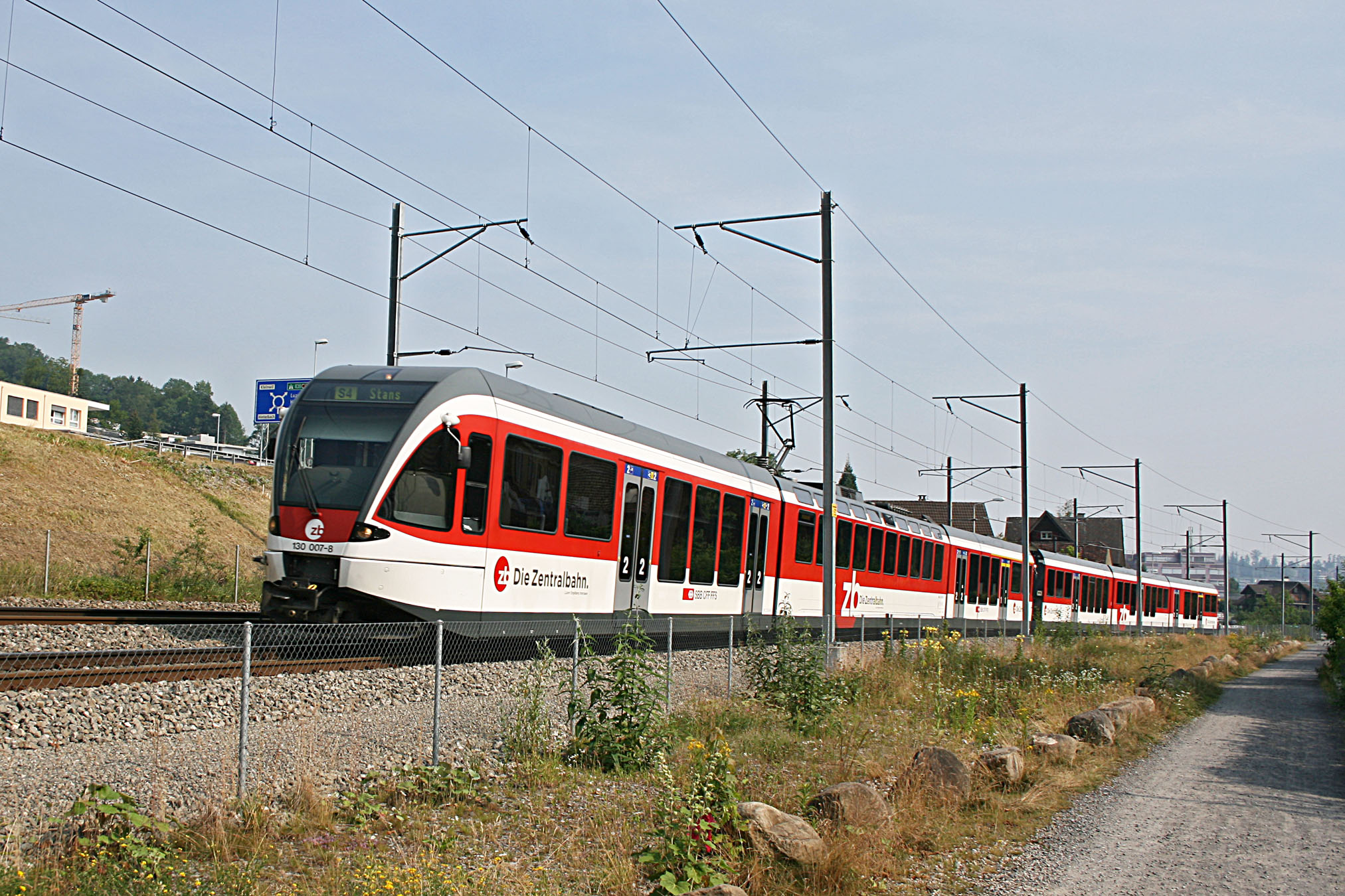 Zentralbahn's Stadler Spatz ABe 130 007 in Ennethorw.